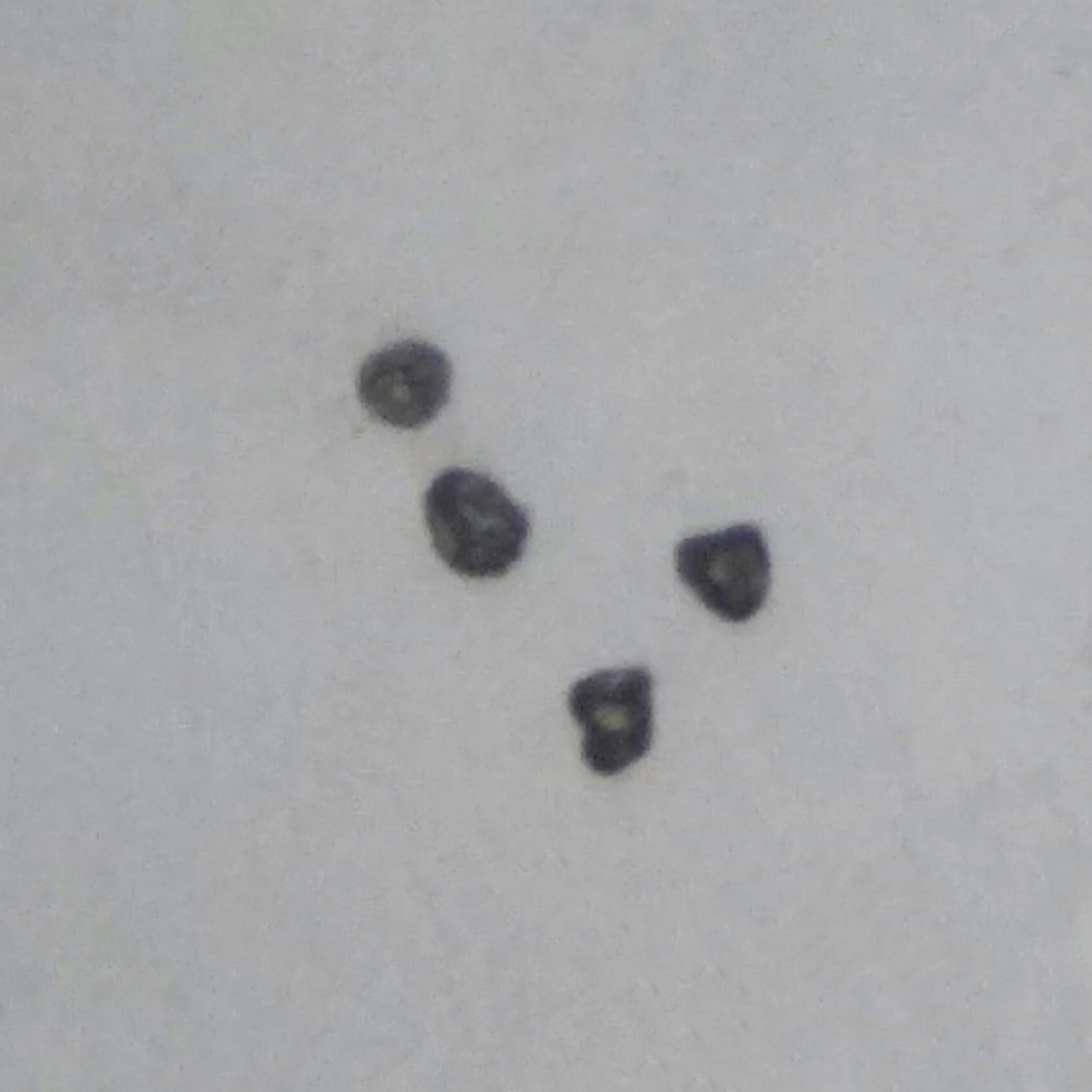 Pollens of Kyllinga brevifolia